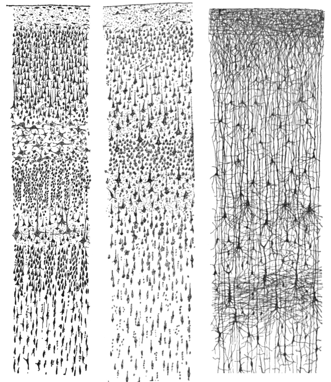 three drawings by Santiago Ramon y Cajal, taken from the book "Comparative study of the sensory areas of the human cortex", pages 314, 361, and 363. Left: Nissl-stained visual cortex of a human adult. Middle: Nissl-stained motor cortex of a human adult. Right: Golgi-stained cortex of a 1 1/2 month old infant. Related images Micrograph of the visual cortex.